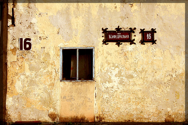 Bridgettines monastery in Lutsk. Fragment of the wall